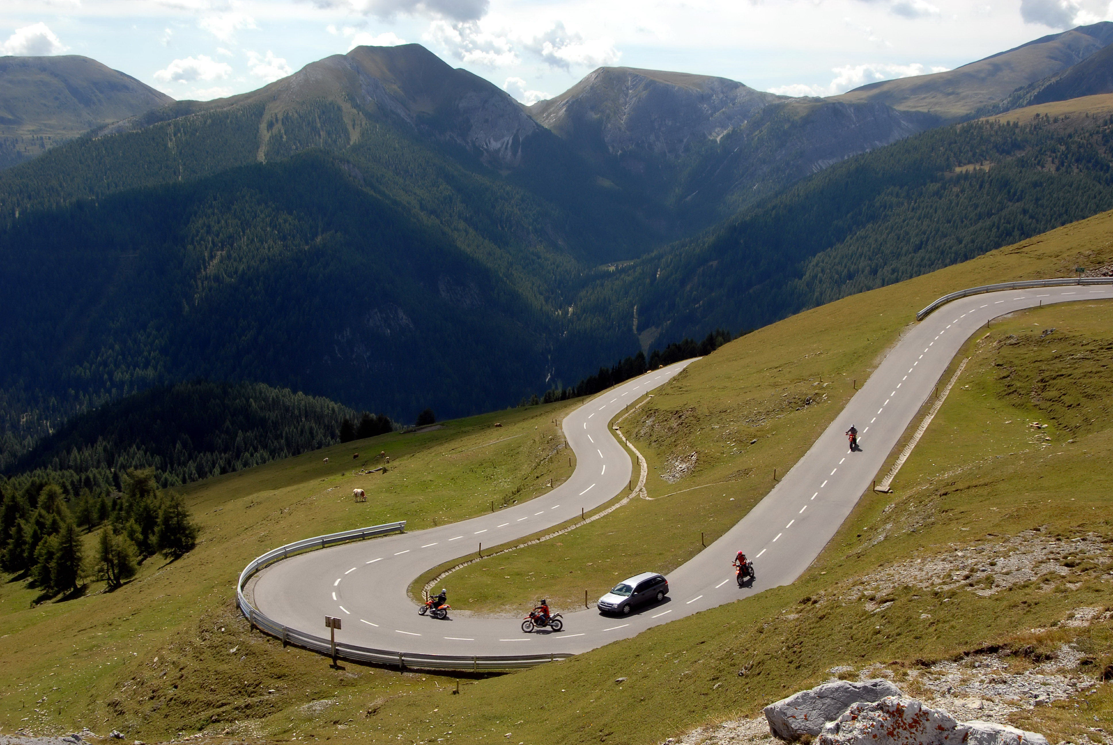 Mountain road in the national park Nockalm with stunning panoramas, municipality Krems, district Spittal on the Drau, Carinthia / Austria / EU